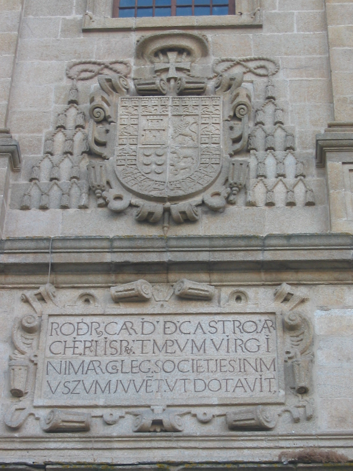 Coat of arms of Cardenal Rodrigo de Castro